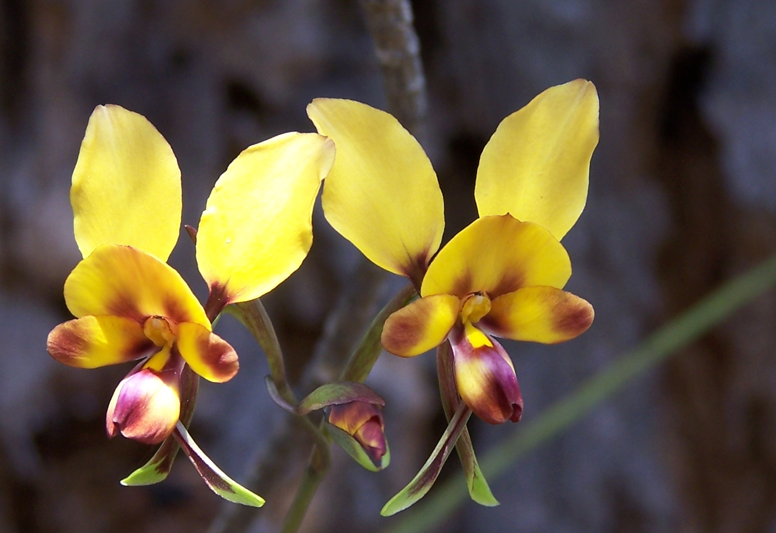 Diuris carinata (note: not 100% certain of species carinata, visually species variations are petal length and colour positions on the flowers) Common Name donkey orchid